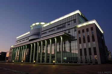 This building is Main Hall of UI.